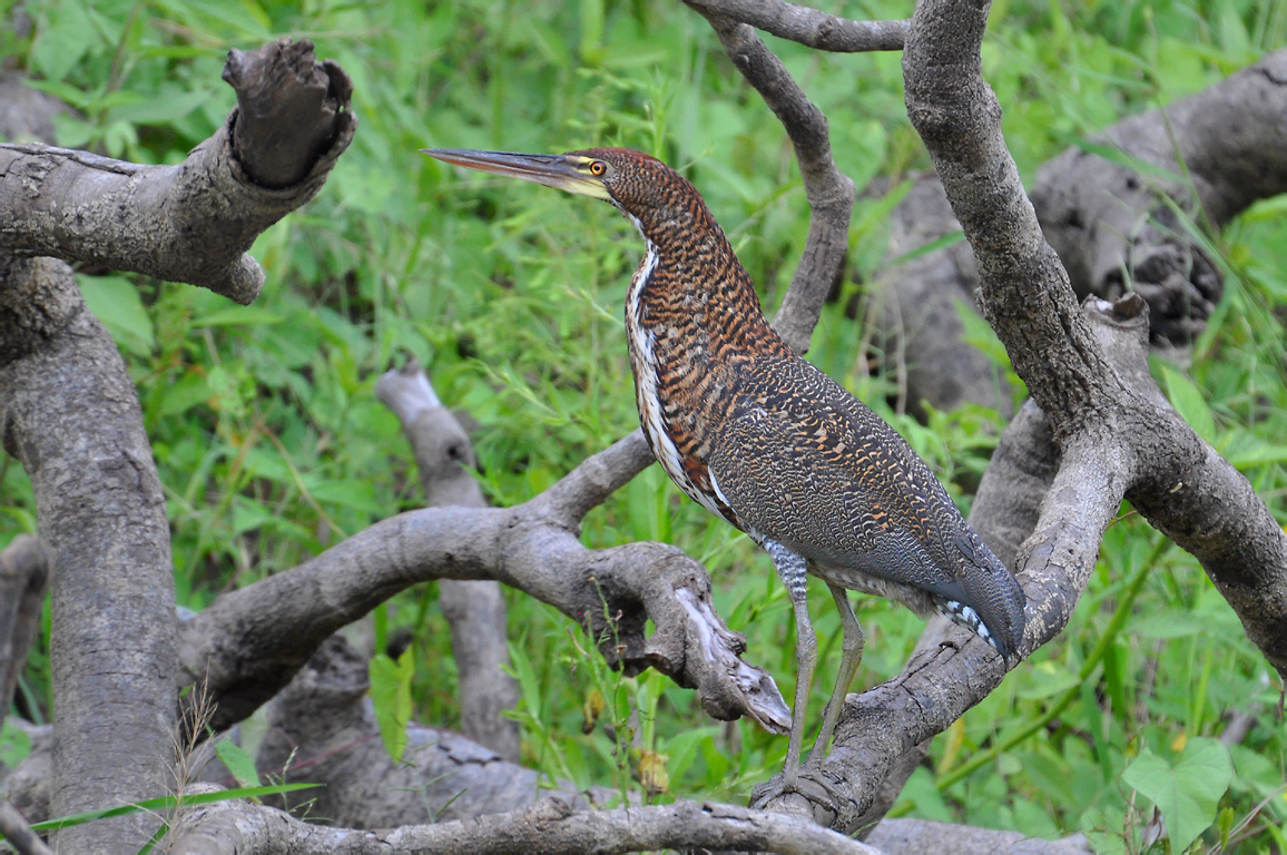 A juvenile Rufescent Tiger Heron in Uarini, Amazonas, Brazil.